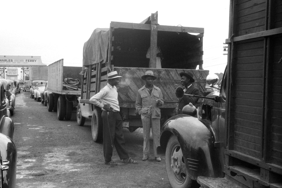 Florida migratory workers at the Norfolk end of the Norfolk-Cape Charles Ferry. They are on their way with the rest of the occupants of the truck to pick potatoes and onions at Onley, Virginia